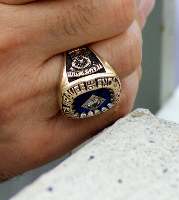 Stan Katsen's World Series ring